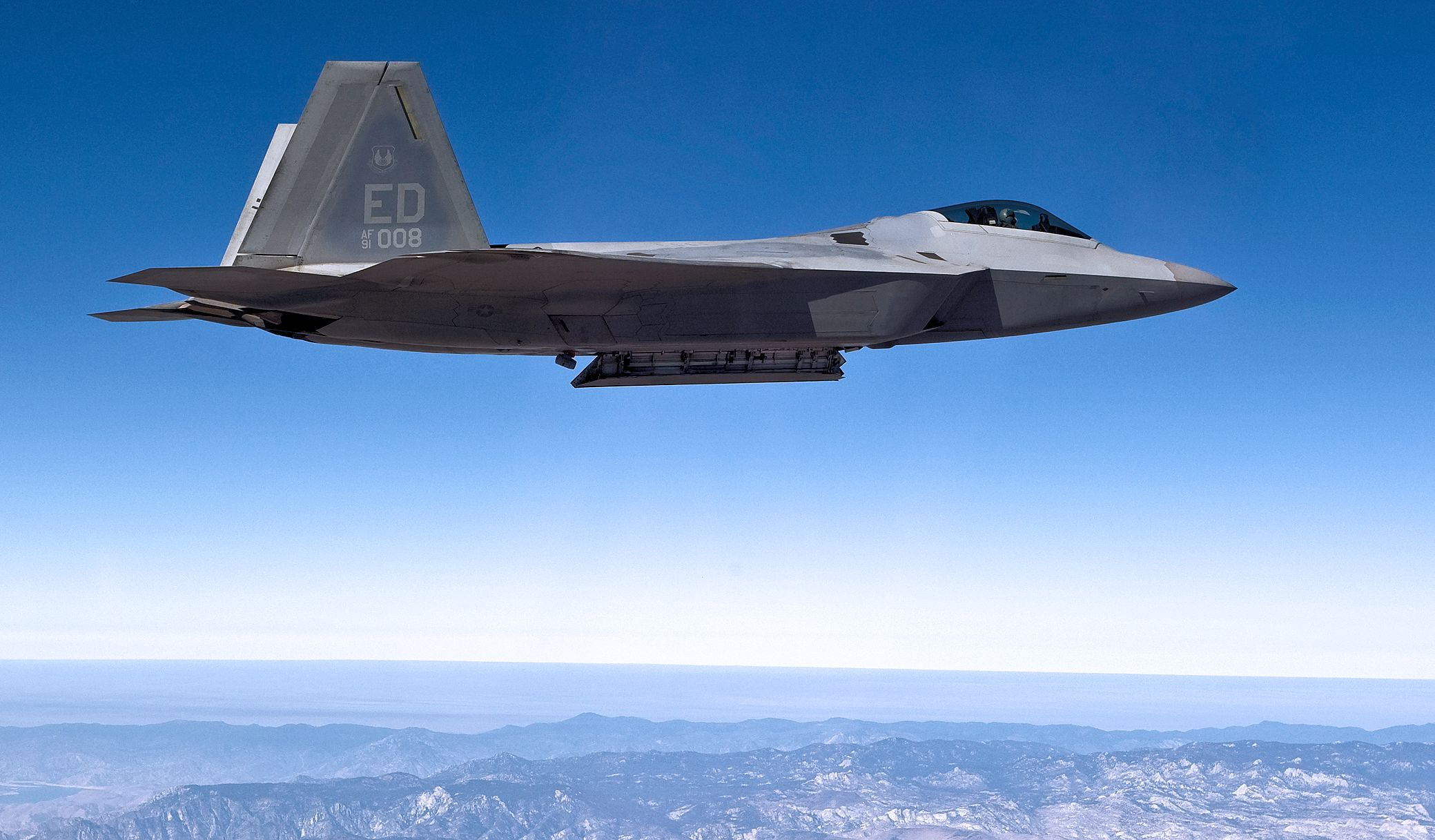 411th Flight Test Squadron - Lockheed F-22A Block 10 Raptor 91-4008 4008 made first airborne separation of Small Diameter Bomb (GBU-39 test article) during mission from Edwards AFB Sep 5, 2007. With 411th Flight Test Squadron, 412th Test Wing crashed at Edwards AFB, CA Mar 25, 2009. While conducting a weapons integration flight test, pilot ejected but sustained fatal injury. Plane impacted ground 35 mi NE of Edwards AFB.